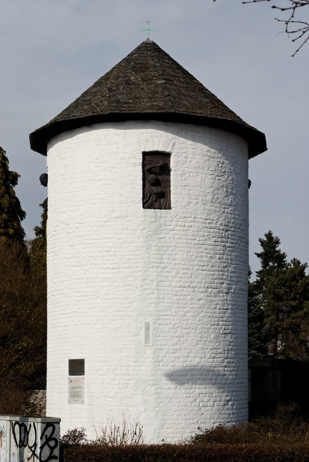 Hunger tower in Düsseldorf-Düsseltal, Germany